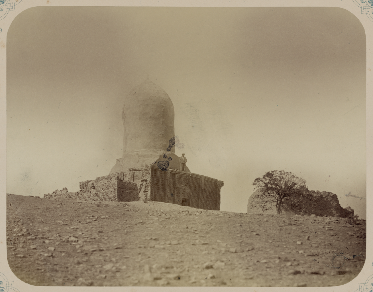 This photograph of the Chupan-Ata mausoleum on the outskirts of Samarkand (Uzbekistan) is from the archeological part of Turkestan Album. The six-volume photographic survey was produced in 1871-72 under the patronage of General Konstantin P. von Kaufman, the first governor-general (1867-82) of Turkestan, as the Russian Empire’s Central Asian territories were called. The album devotes special attention to Samarkand’s Islamic architectural heritage. This view of the mid-15th century Chupan-Ata mausoleum (mazar) reveals severe damage to both the structure and the dome, as well as to the surrounding wall of sun-dried (adobe) brick. The elevated position of the structure might have increased the risk of damage in this active seismic zone, yet the high dome, raised on a cylinder, is structurally intact. The name of the mazar means “father of shepherds,” a reference to a popular local cult. No traces of ceramic decoration remain; the exterior seems to have been surfaced with a stucco-like material as a conservation measure. The mausoleum has a centralized design, with four arches rising from the basic cuboid structure and beveled corners buttressing the cylinder beneath the dome. The figure standing on the roof gives an idea of the scale. The sun-baked ground appears to be littered with brick rubble. Domes; Islamic architecture; Photographic surveys; Shrines; Turkic peoples